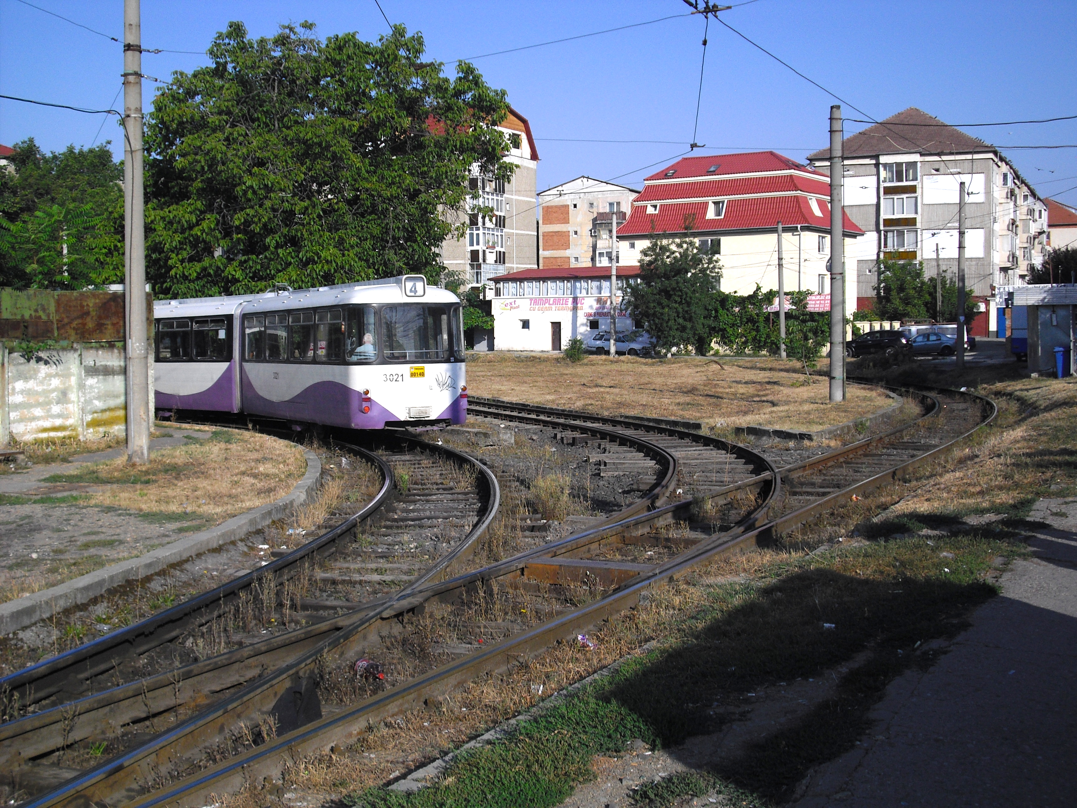 GT4 type tram in Timisoara.